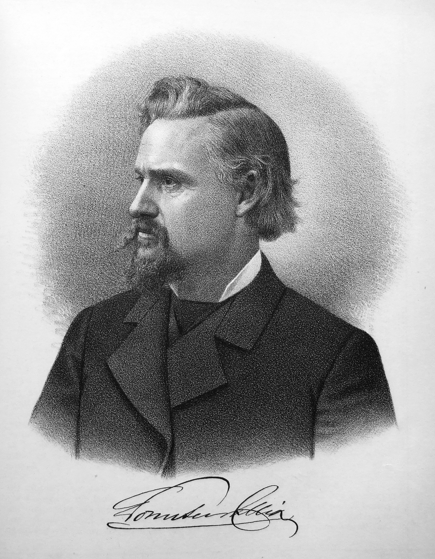 Engraved portrait and signature of E. Townsend Mix, State Architect of Wisconsin.